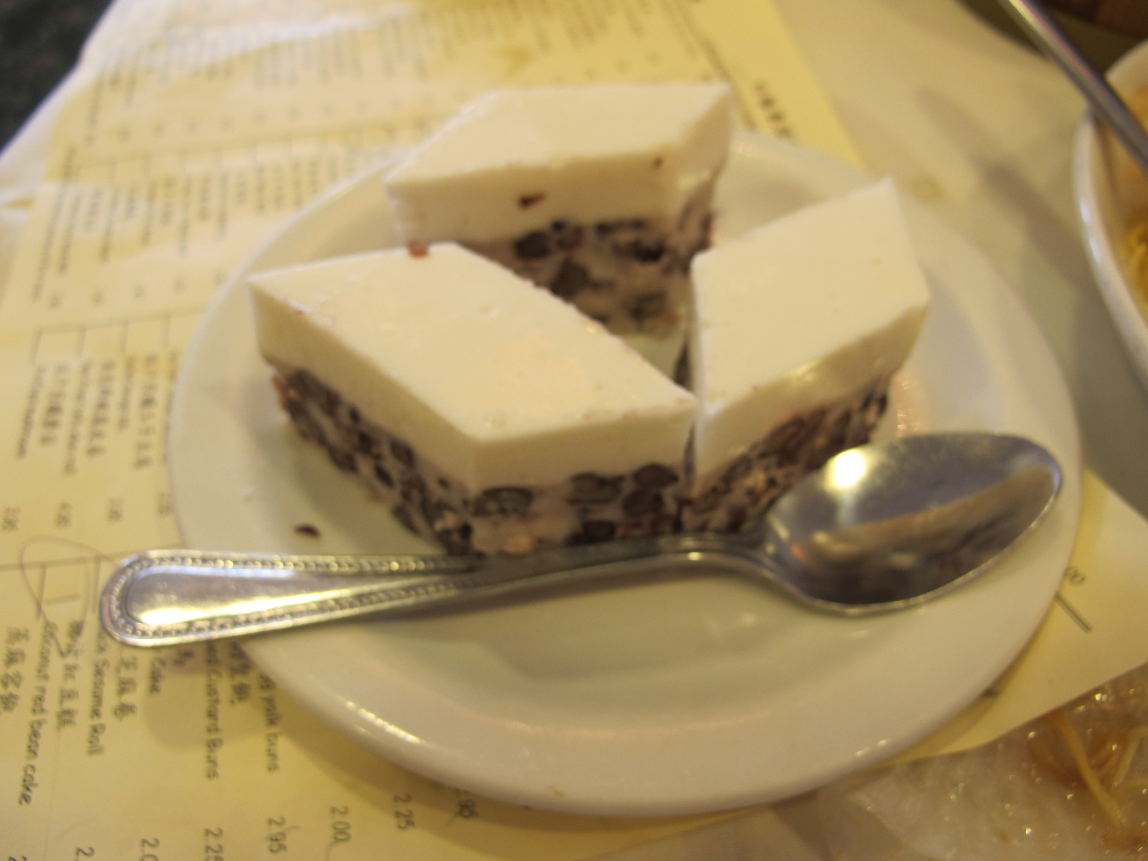 Coconut Red Bean Pudding